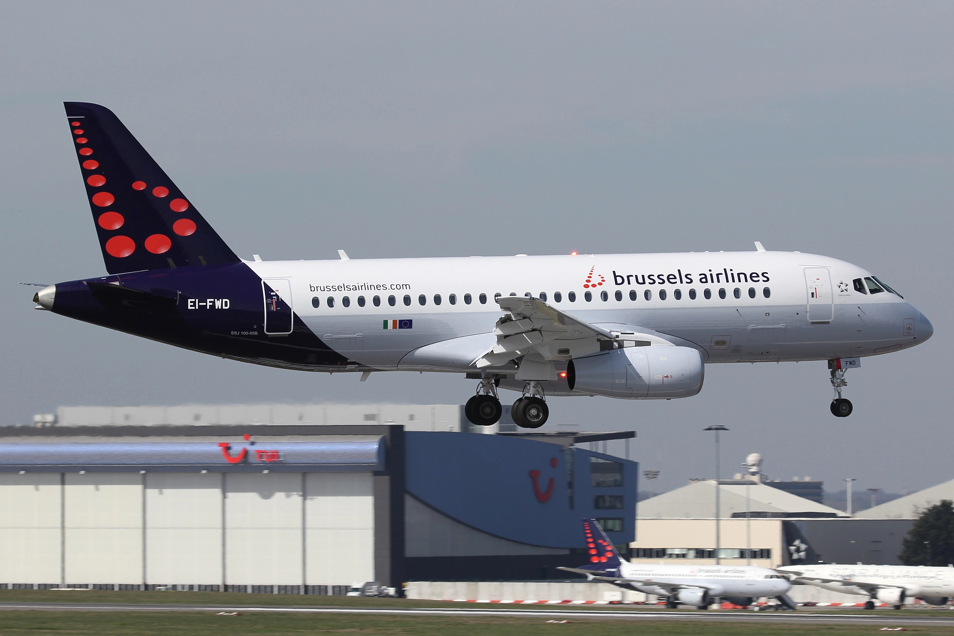 Brussels Airlines Sukhoi Superjet 100-95 landing at Brussels Airport